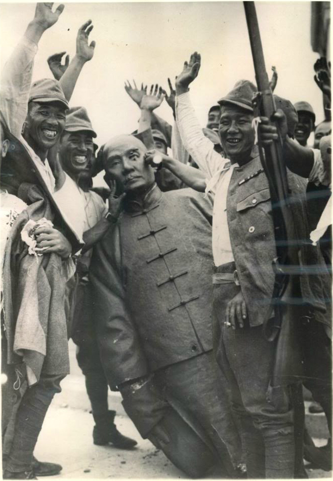 Japanese soldiers with a broken statue of Dr. Sun Yat Sen[1], the revolutionist of modern China. Picture taken in 1937, Shanghai.